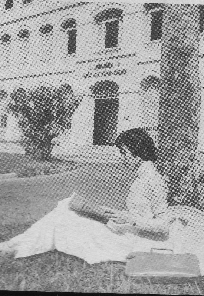 Institute of National Administration, Saigon